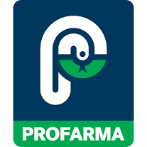 Profarma Sh.a company's logo